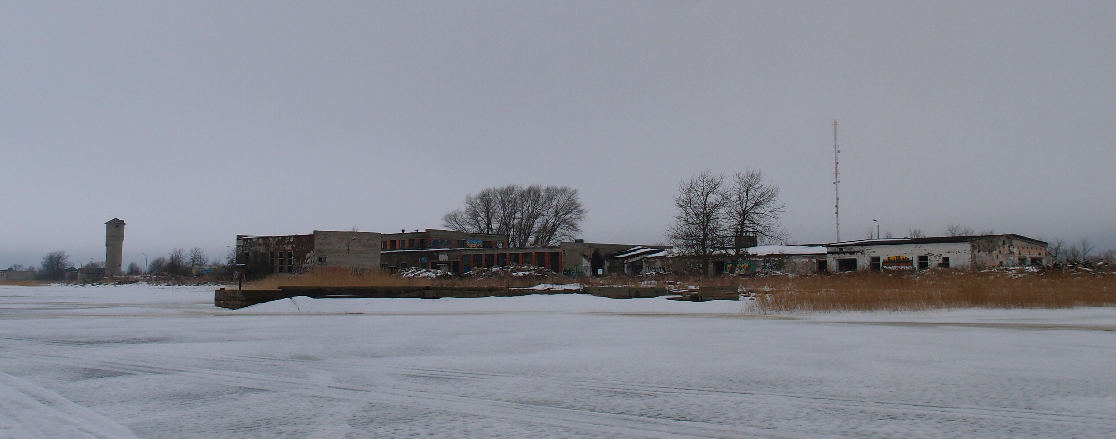 Krimmi holm in Haapsalu in March 2018 (as seen from the sea).